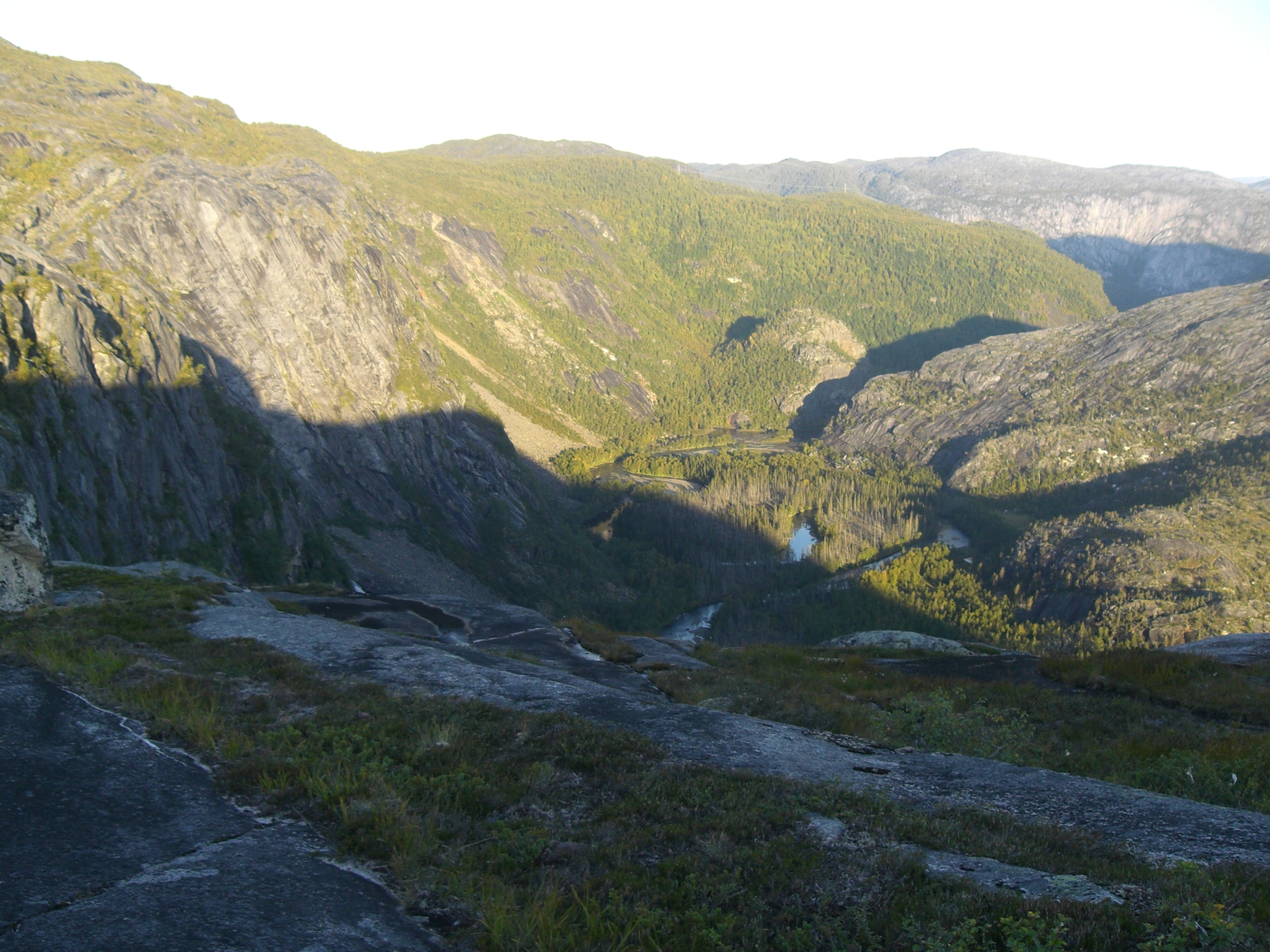 The valley Storskogdalen and the river Nordfjordelva, just west of Rago nationalpark, Norway, by sunsetNorsk bokmål: Storskogdalen og Nordfjordelva, like vest for Rago nasjonalpark i Nordland